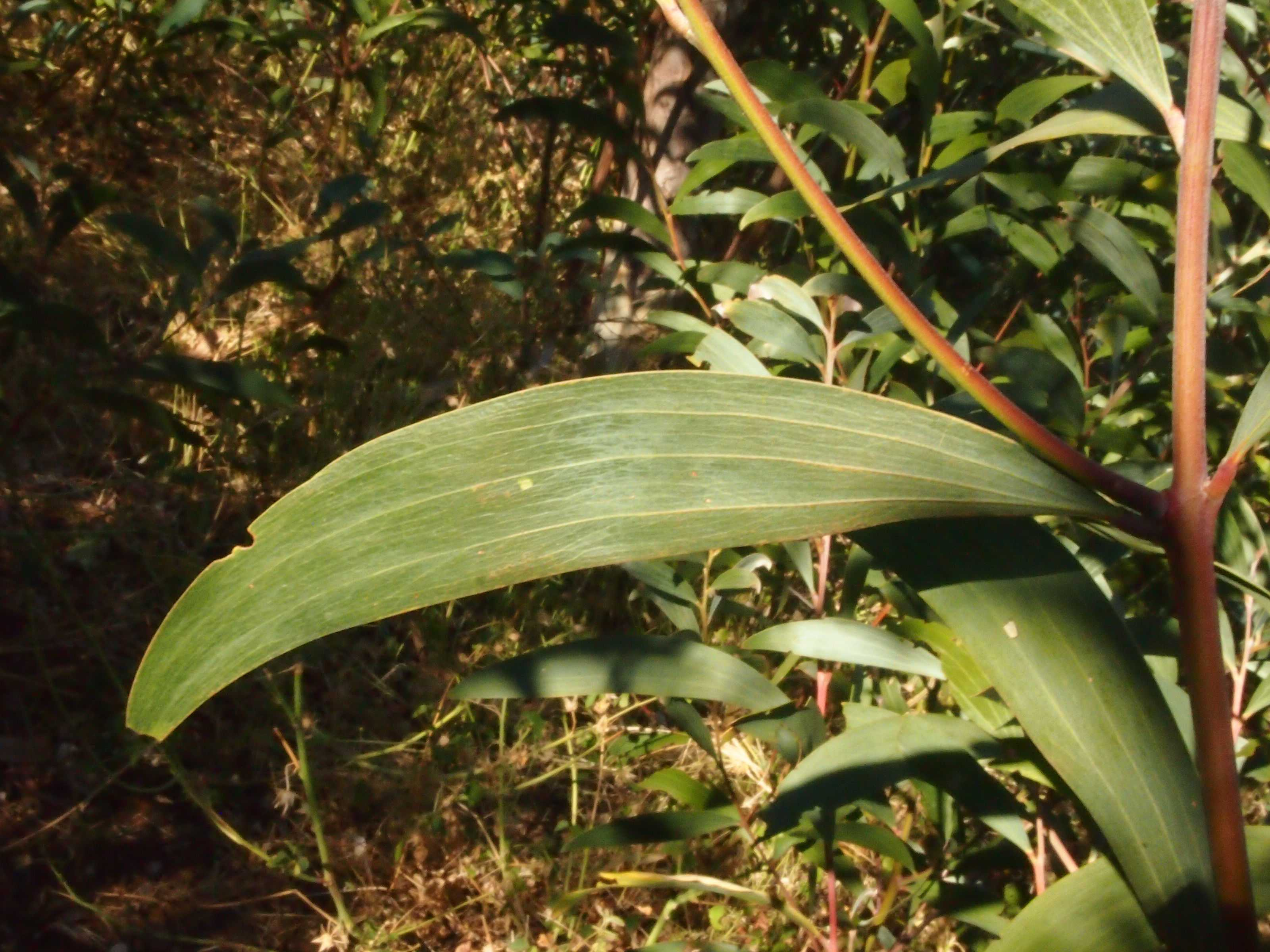 Acacia elacantha leaf